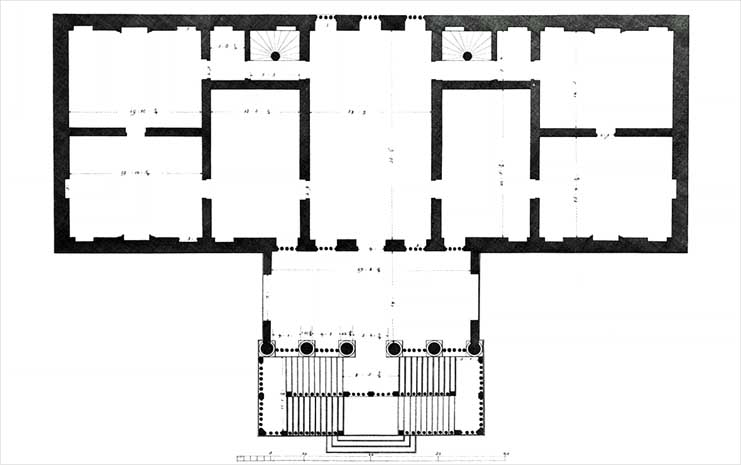 Villa Piovene in Lonedo di Lugo di Vicenza. Drawing from Ottavio Bertotti Scamozzi, 1778.